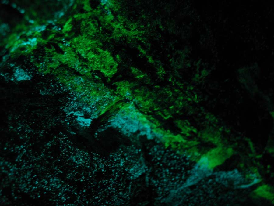 Fluorescence (LWUV) inside one of the galleries